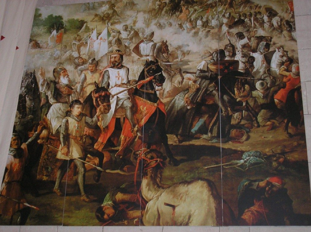 Scenes of the Spanish Reconquest by Military Order of Santiago. Monastery of Ucles, Cuenca, Spain.